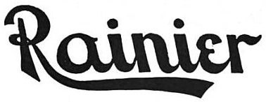 The Rainier Company of New York, New York - logo - 1912